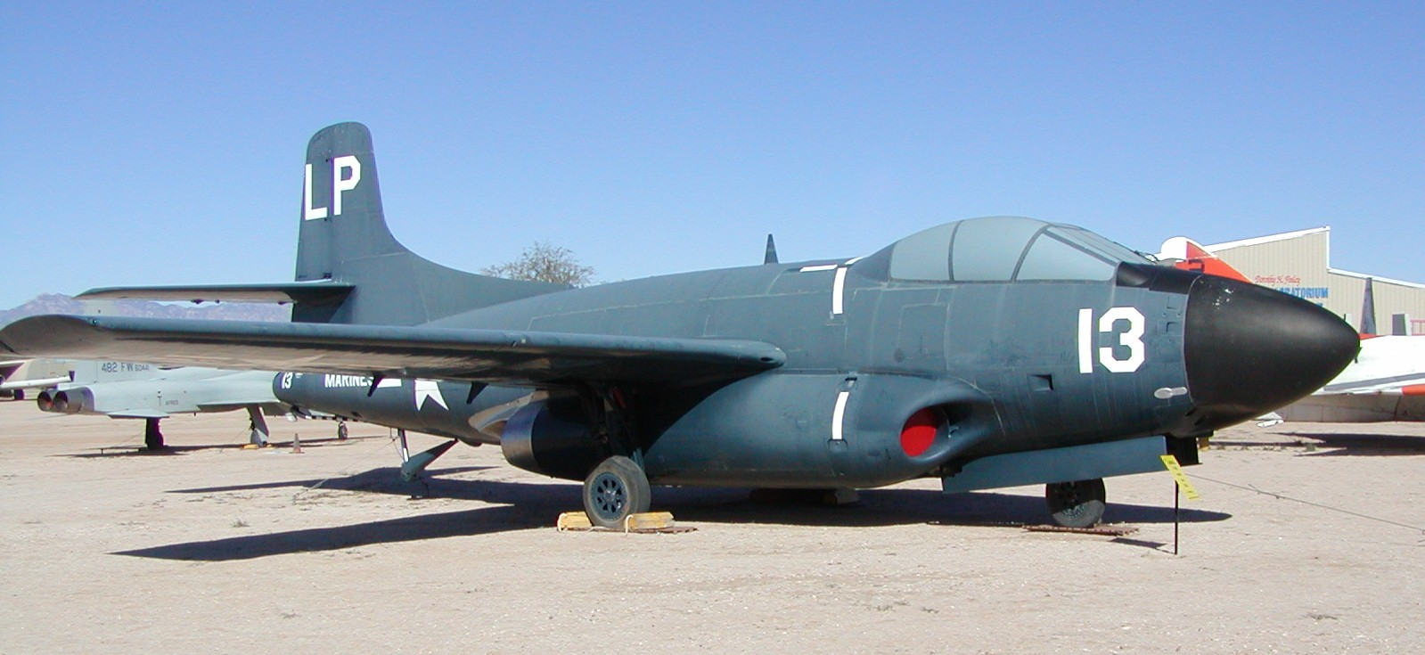 Douglas F3D-2 Skynight at Pima Air Museum, Tucson, Arizona (USA). BuNo. 124629 is painted in the colours of Marine Night Fighter Training Squadron 20 (VMFT(N)-20), Cherry Point MCAS, North Carolina (USA).